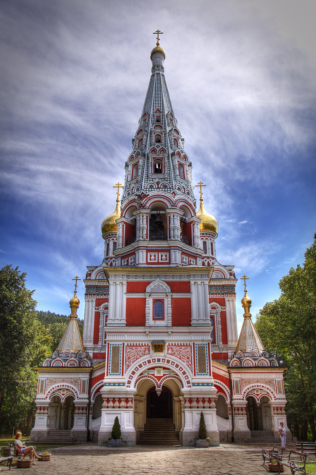 Shipka Memorial Church is a Bulgarian Orthodox church built near the town of Kazanlak between 1885 and 1902 to Antoniy Tomishko's design in the seventeenth-century Muscovite style, under the direction of architect Alexander Pomerantsev. It is, together with the other parts of the Shipka Monument complex, dedicated to the Russian, Ukrainian and Bulgarian soldiers that died for the liberation of Bulgaria in the Russo-Turkish War, 1877-78. The temple was officially opened on 28 September 1902 in the presence of Russian Army generals and many honourable guests. The opening and consecration of the Shipka Memorial Church coincided with the 25-year anniversary of the Battles of Shipka Pass. In 1970, the temple was proclaimed a national monument of culture. This image and many more from my Photostream are shared under Creative Commons licence. Author: Salva Barbera. You can use this image on websites, blogs or other media projects without my permission as long as you credit me as the Author. My images may not be used for any profane or immoral purpose or to incite violence or hatred. Please read the Creative Commons image licence guidelines before downloading. A link back to my Flickr account is not mandatory but highly appreciated.